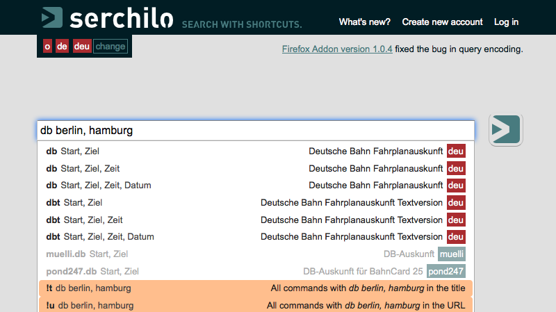 Screenshot of Serchilo Autocomplete functionality